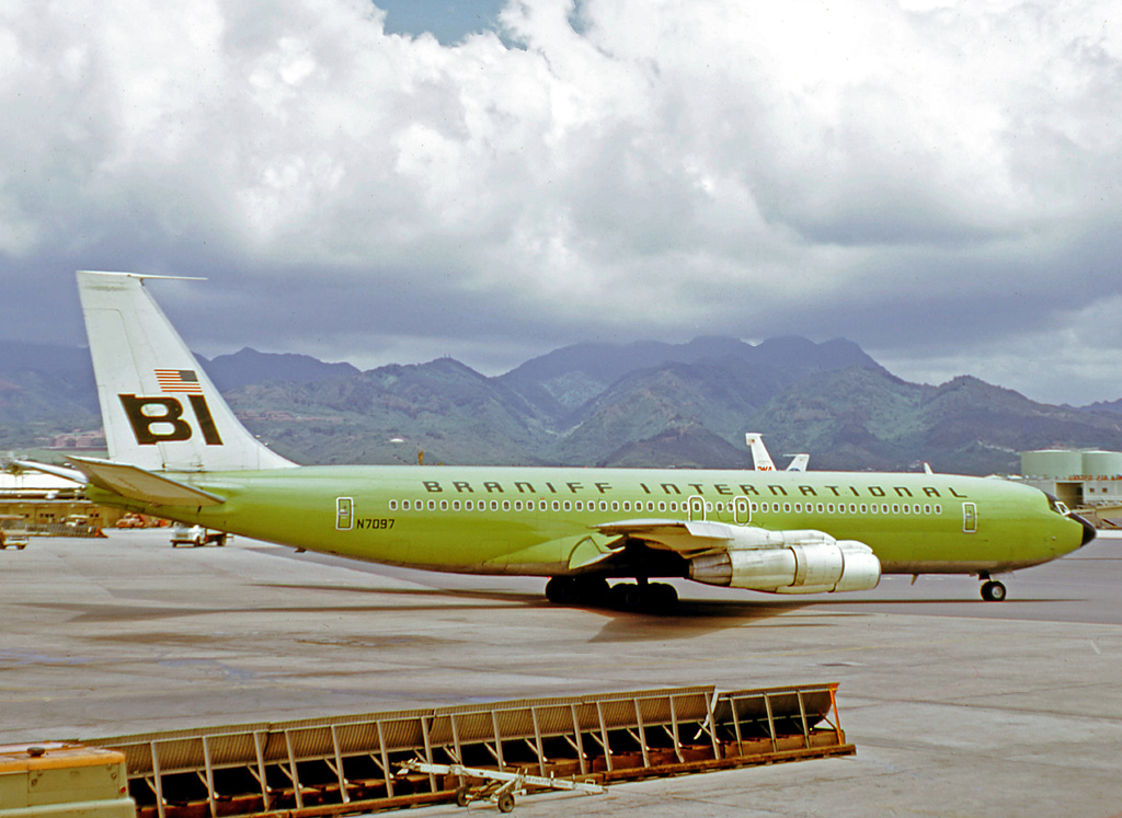 Boeing 707-327C N7097 of Braniff Airways at Honolulu Airport in 1971